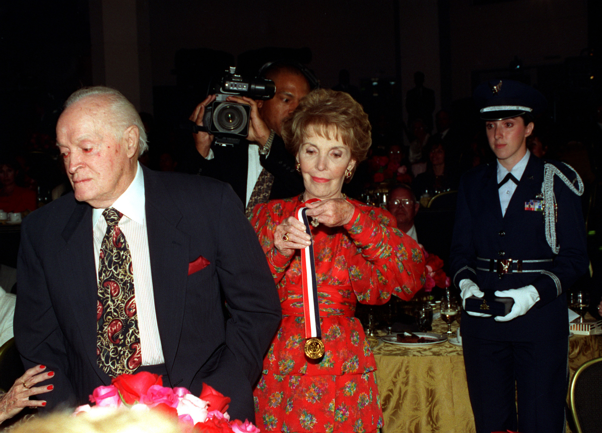 Former First Lady Nancy Reagan prepares to present the Ronald Reagan Presidential Medal of Freedom to Mr. Bob Hope during his 94th birthday celebration.